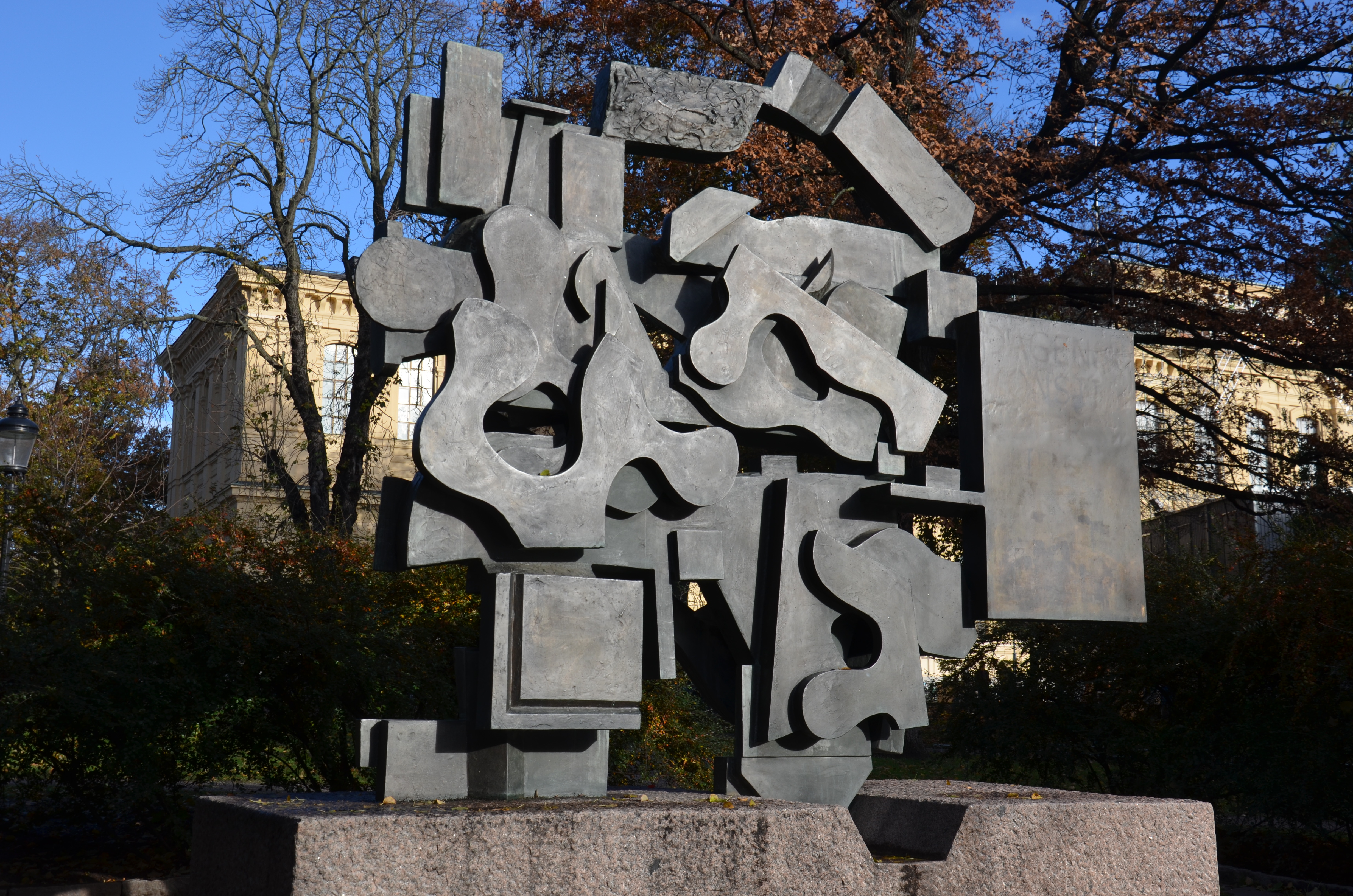 Martin Holmgrens Isobartema, Humlegården, Stockholm